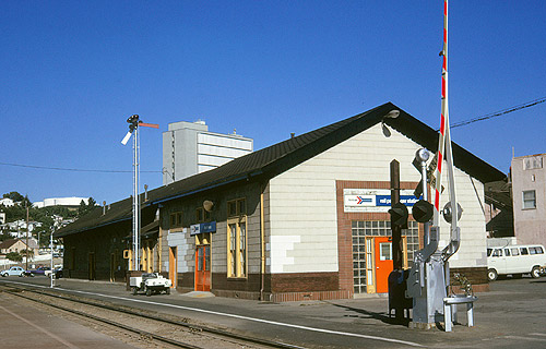 Amtrak using the pre-restoration Martinez station in May 1974